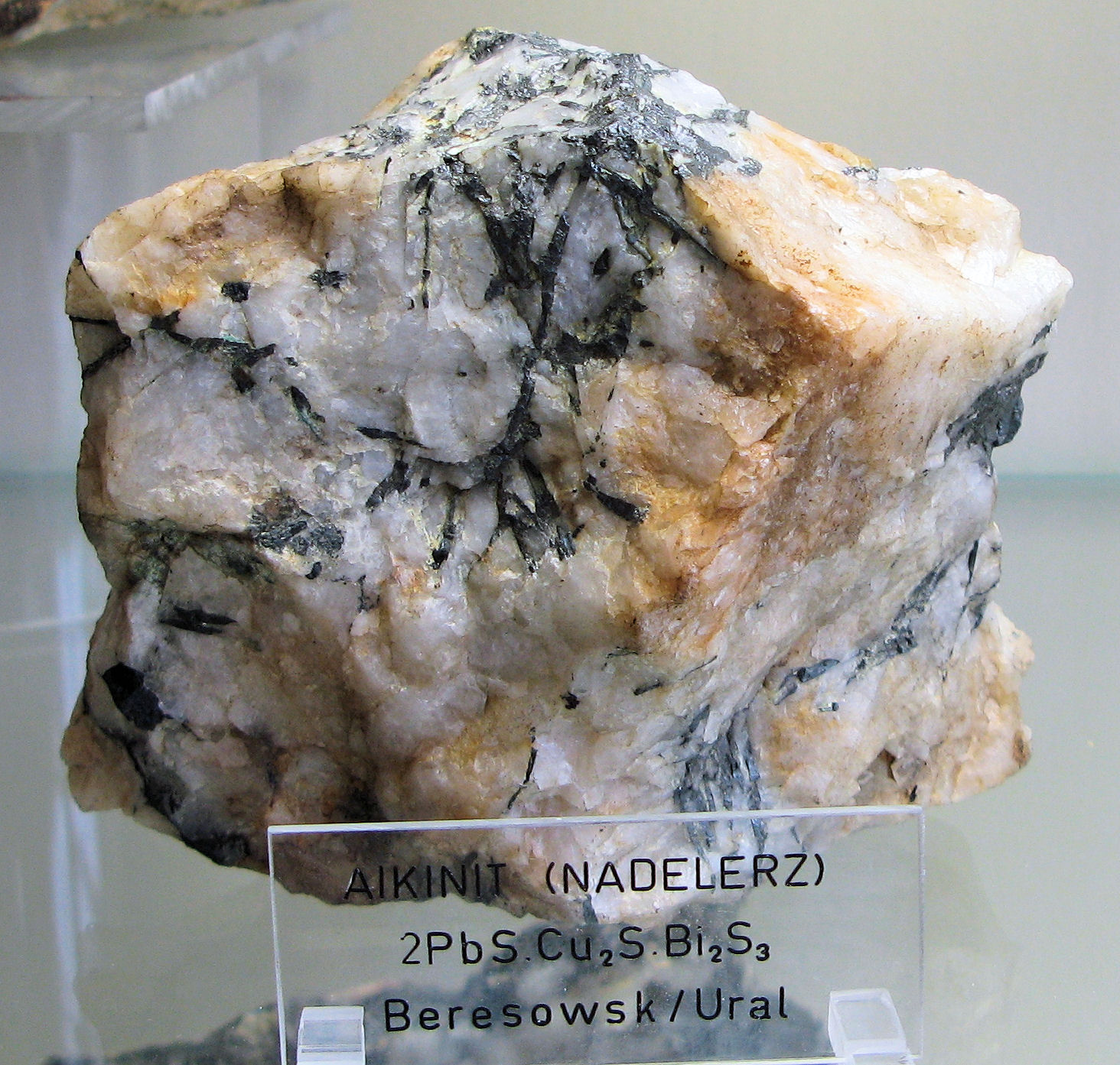 Aikinite - Locality: Beresowsk, Ural - Exposed in the Mineralogical Museum, Bonn, Germany